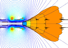 NASA diagram of VASIMR rocket functioning